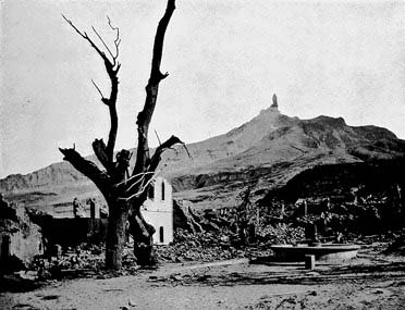 Mt. Pelee is also notable for the growth of volcanic spines, rigid columns of solidified lava pushed above the throat of the volcano. This view from the south section of St. Pierre looking up to Mt. Pelee. Note the volcanic spine at the summit of the volcano.